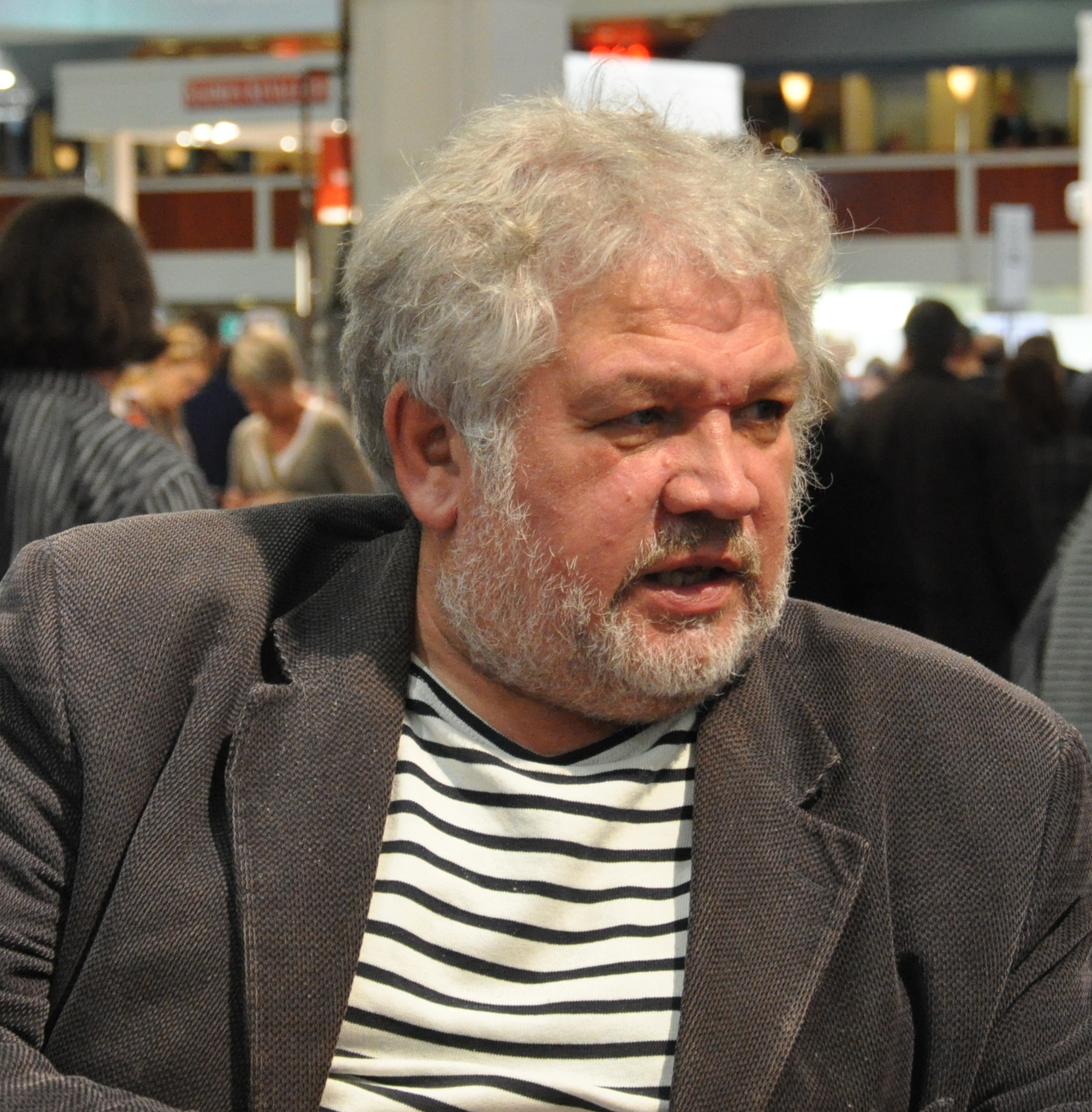 Finnish journalist Aarno Laitinen at the Helsinki Book Fair 2009.